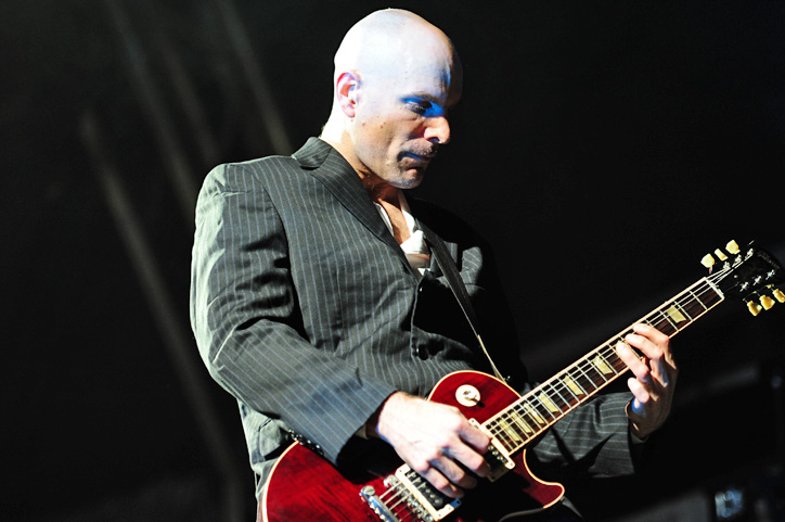 Soundwave Festival 2010